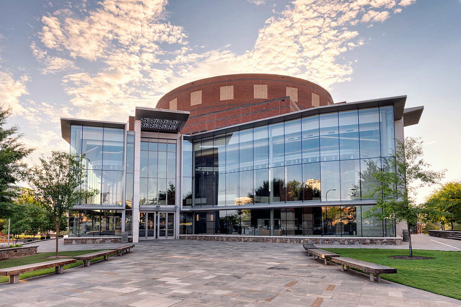 The exterior of the Peace Concert Hall in Greenville, South Carolina